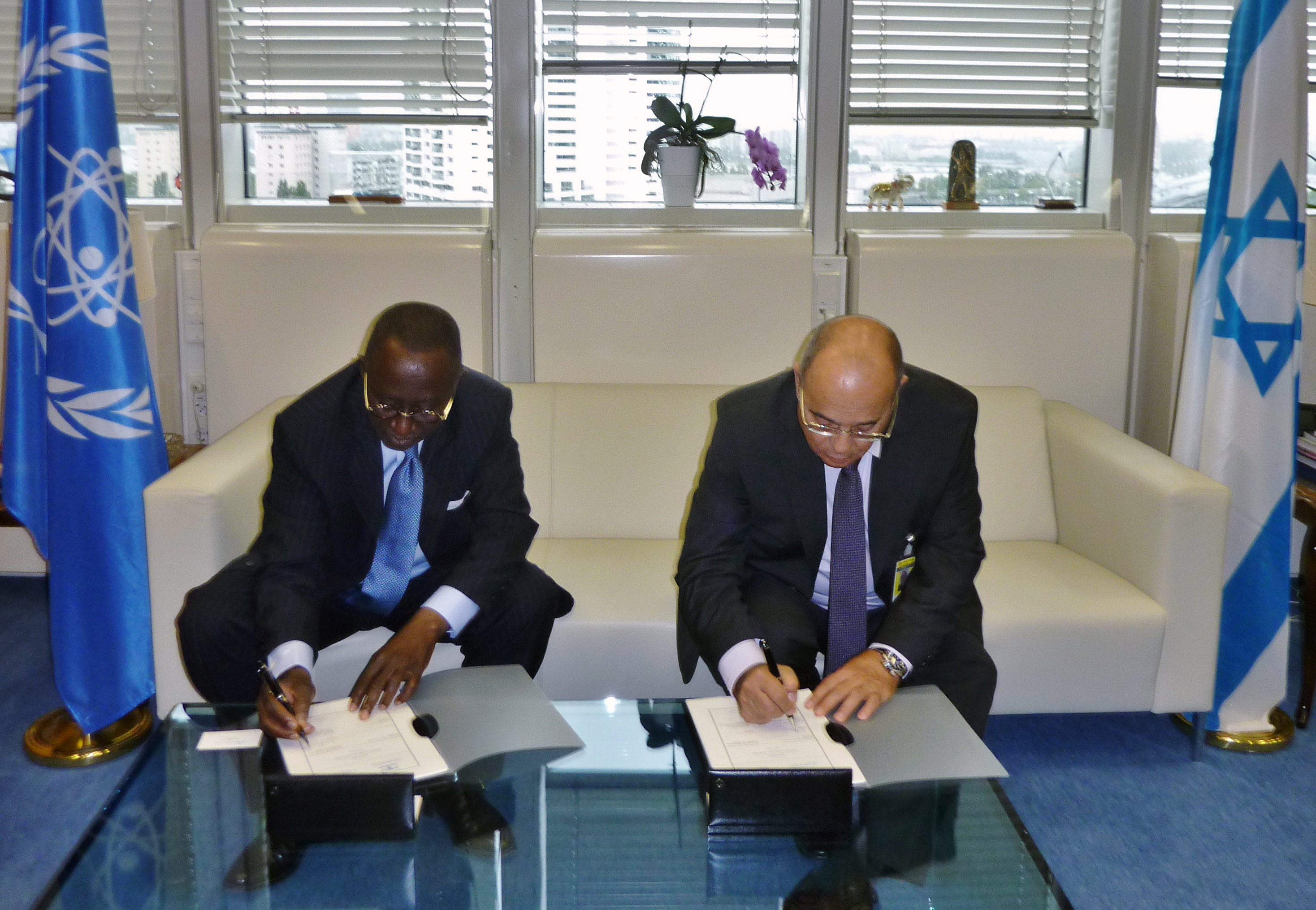 HE Mr. Ehud Azoulay, Ambassador and Resident Representative of Israel to the IAEA, and Mr. Kwaku Aning, IAEA Deputy Director General and Head of the Department of Technical Cooperation, have signed Israel’s Country Programme Framework (CPF) for the period of 2012 - 2017. IAEA Vienna, Austria. 19 September 2012 Photo Credit: IAEA